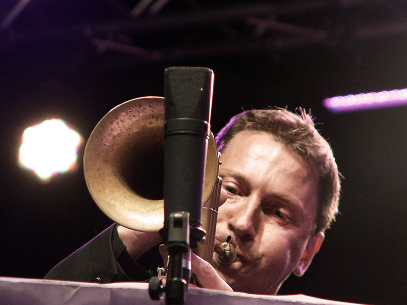 Gerard Presencer performing with Klüvers Big Band in Aarhus 2010